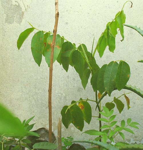 Dipteryx alata, token in São Paulo, SP, Brasil, with a Canon PowerShot A 620, and edited using IrfanView 3.98.